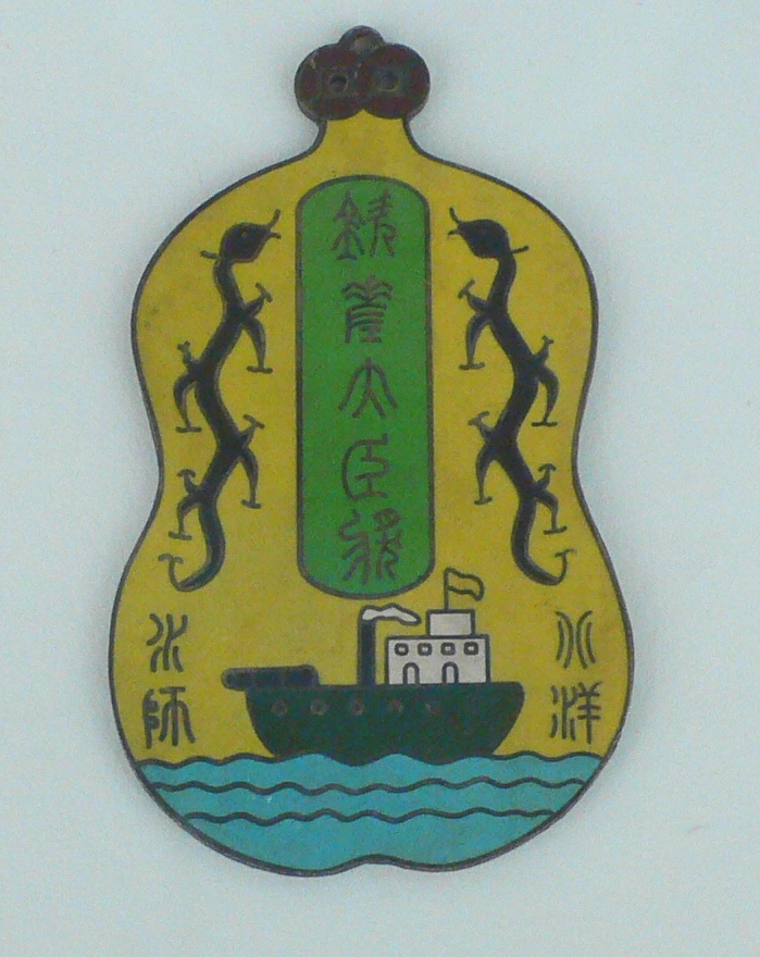 A Badge Commemorating the Establishment of the Beiyang Fleet of Qing Dynasty, China(The photo was taken in Hong Kong Museum of Coastal Defence)